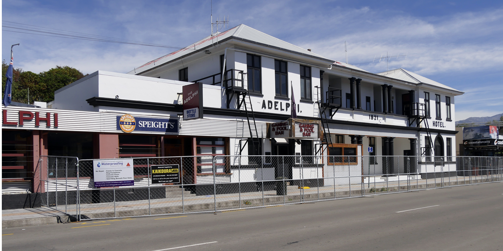 Adelphi Hotel (after November 2016 earthquake), Kaikoura, Canterbury Region, South Island, New Zealand